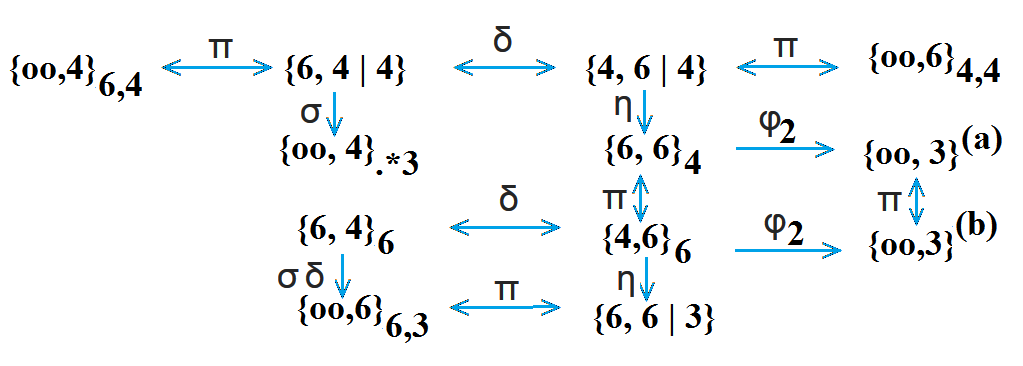 Abstract Regular polytopes, Pure 3-dimensional apeirohedra chart, p224, 7E10